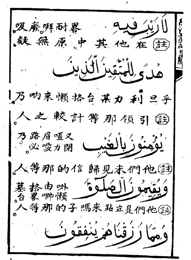 A Specimen page of a Chinese Koran Commentary